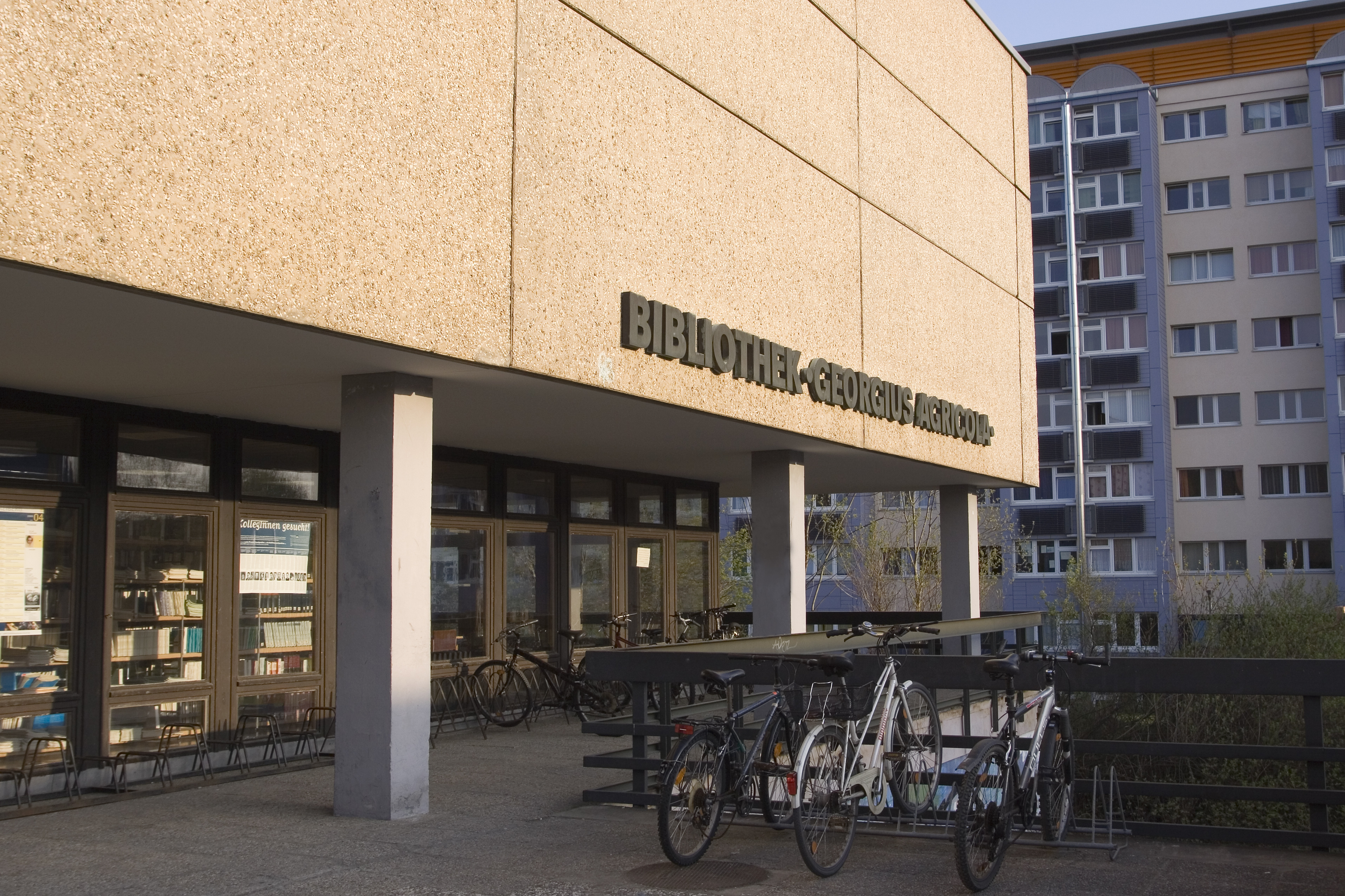 Freiberg, University Library „Georgius Agricola“